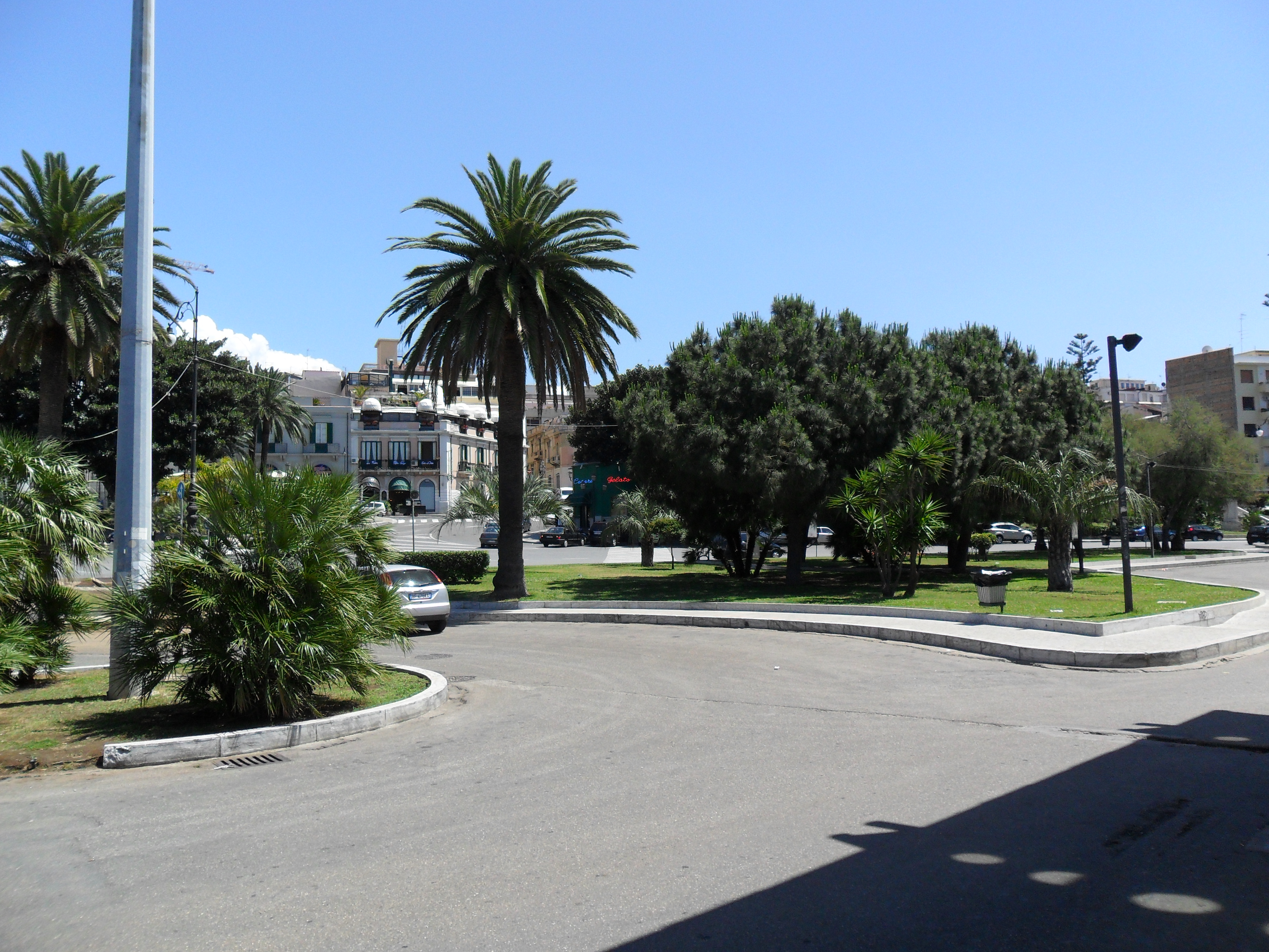 Indipenden Square